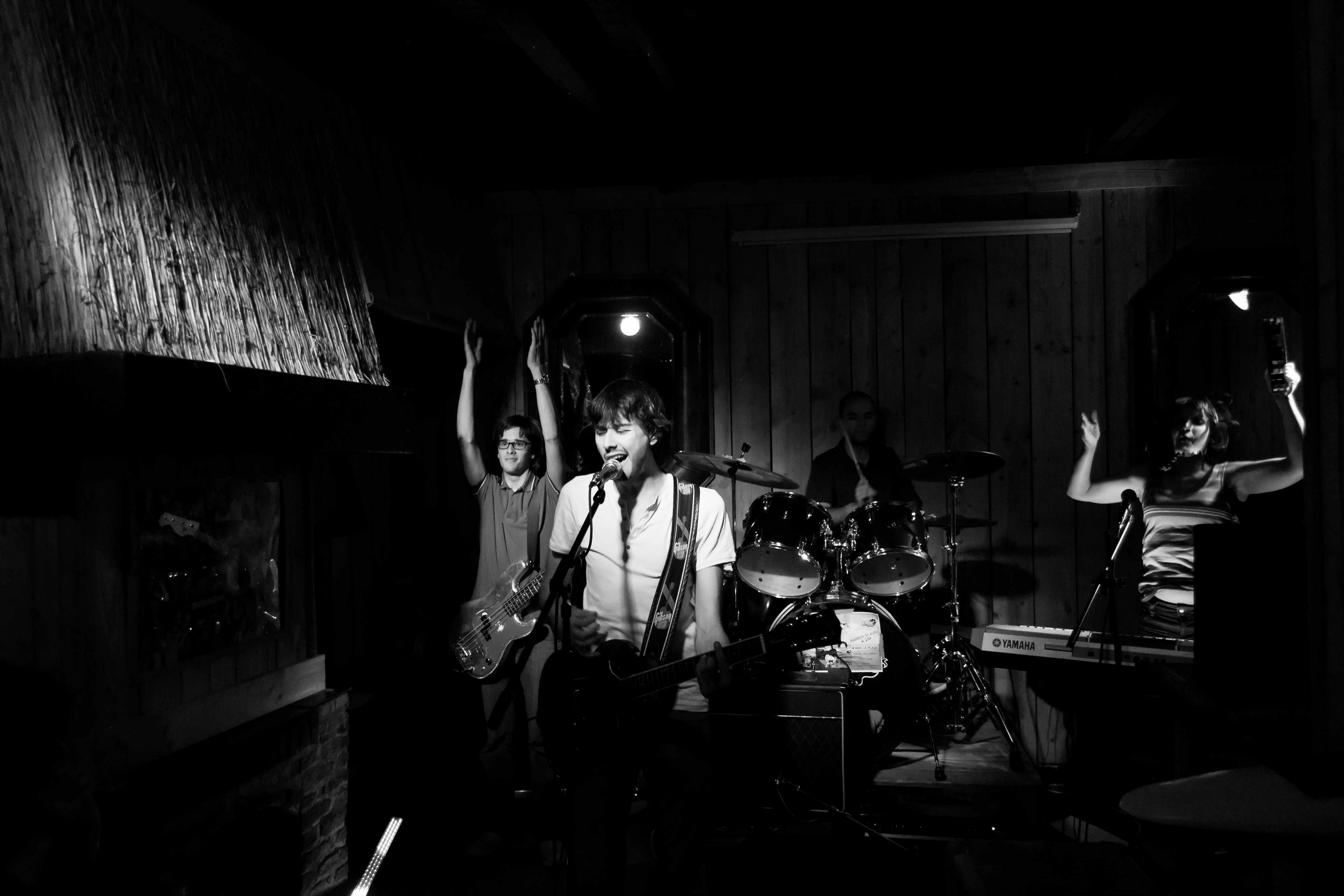 Let Go in 2012